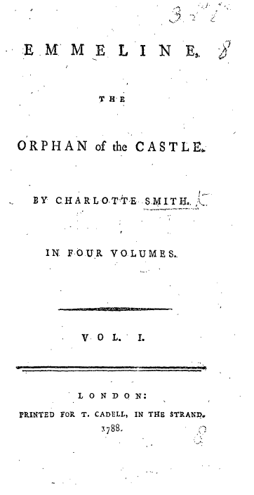 Smith, Charlotte Turner. Emmeline, the orphan of the castle. Vol. 1. London: Printed for T. Cadell, 1788.